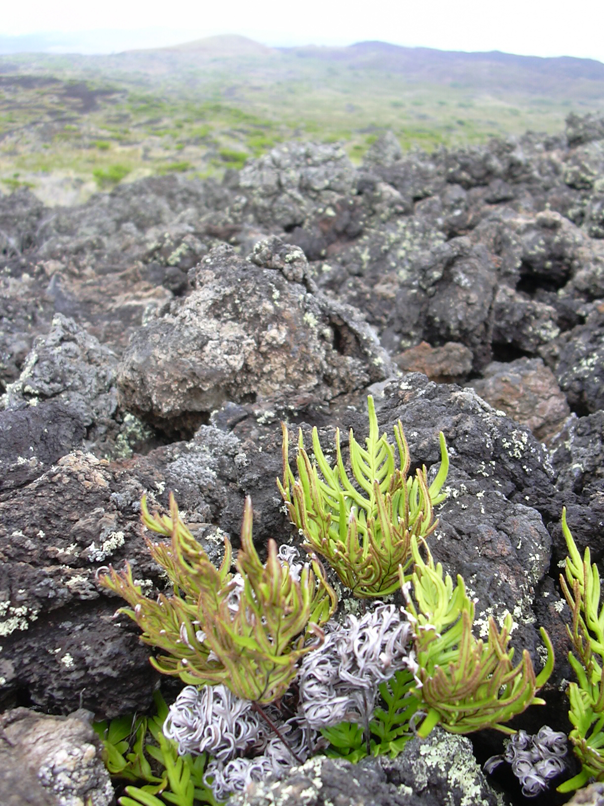 Doryopteris decipiens (habit). Location: Maui, Kanaio